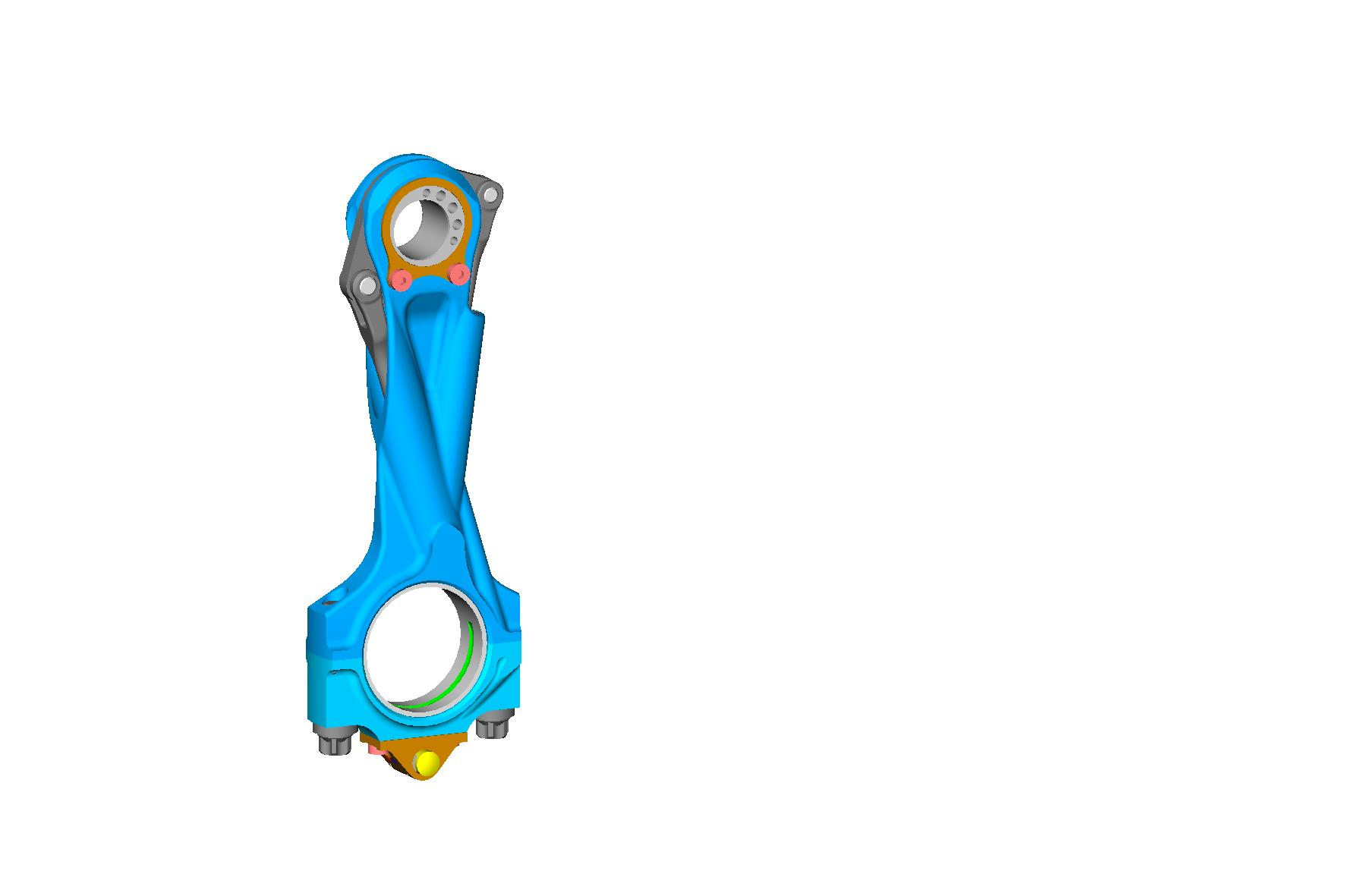 VCR conrod Designed by: K. Wittek Application: Passenger car gasoline engine